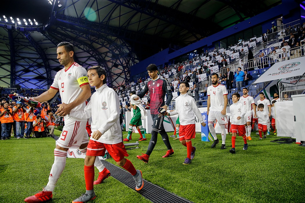 Iran & Iraq Group D match, 2019 AFC Asian Cup